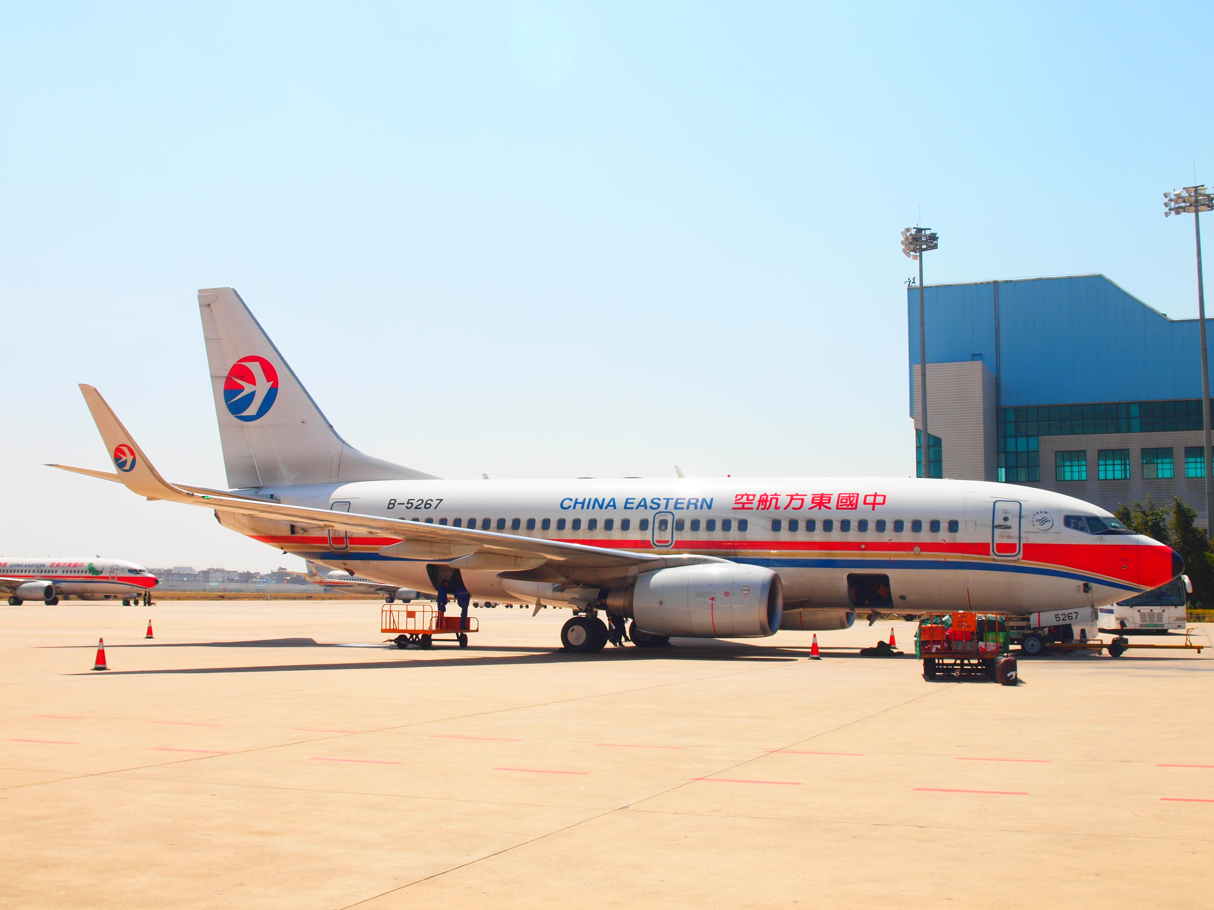 China Eatern Airlines - Boeing 737-79P